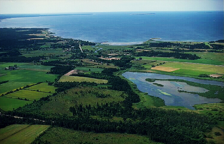 Västergarn and the lake Paviken in Gotland municipality, Gotland county, Sweden